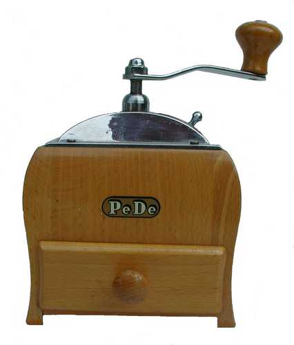 Coffee grinder brand Pede